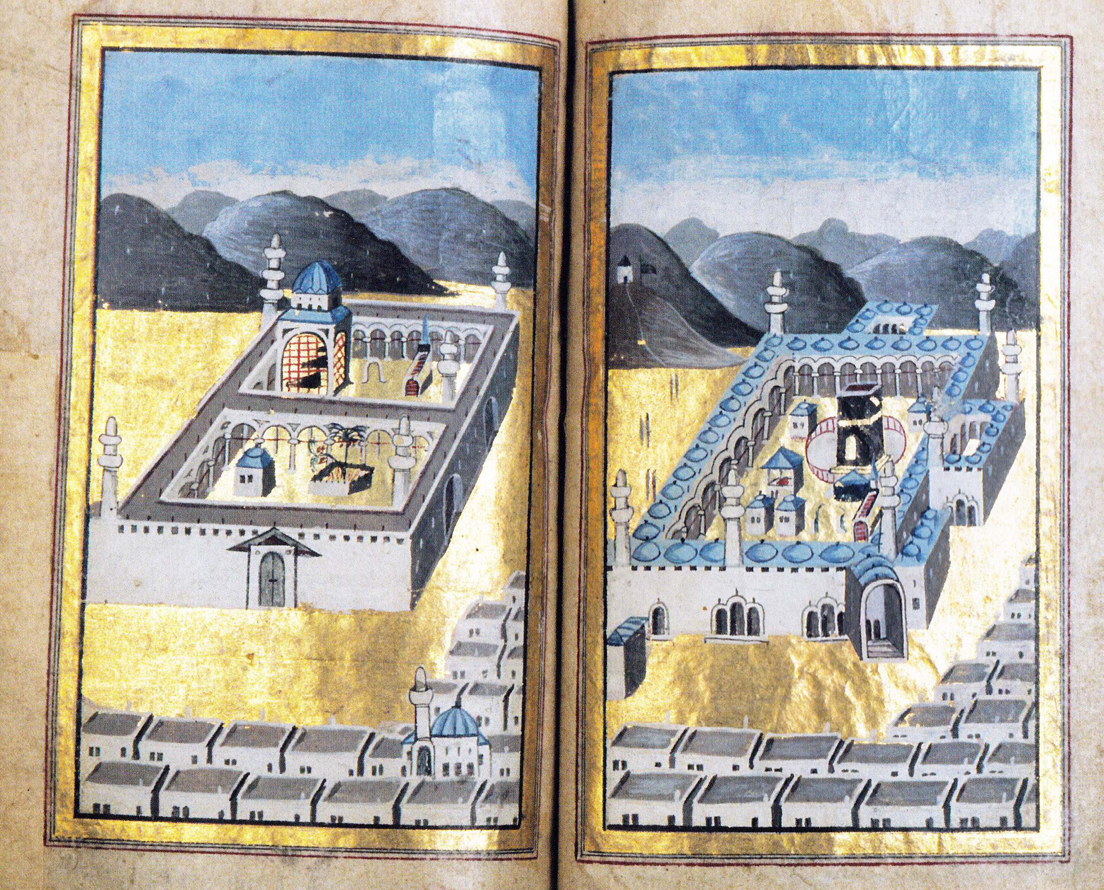 Ottoman representation of Holly mosques of Medina (in left) and Mekka (in right). XVIII century Stockholm, Sweden